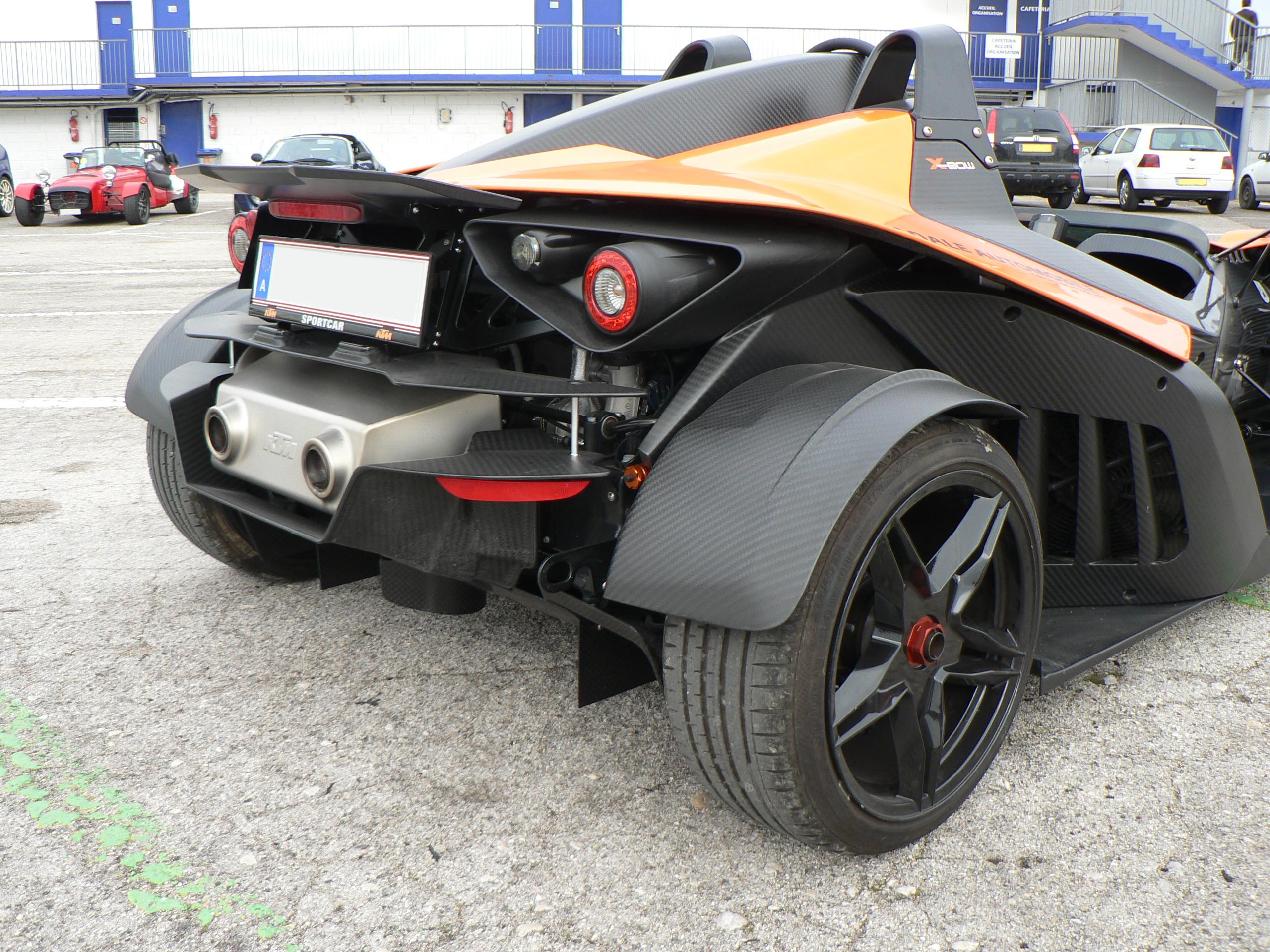 Partial back view of a KTM X-Bow